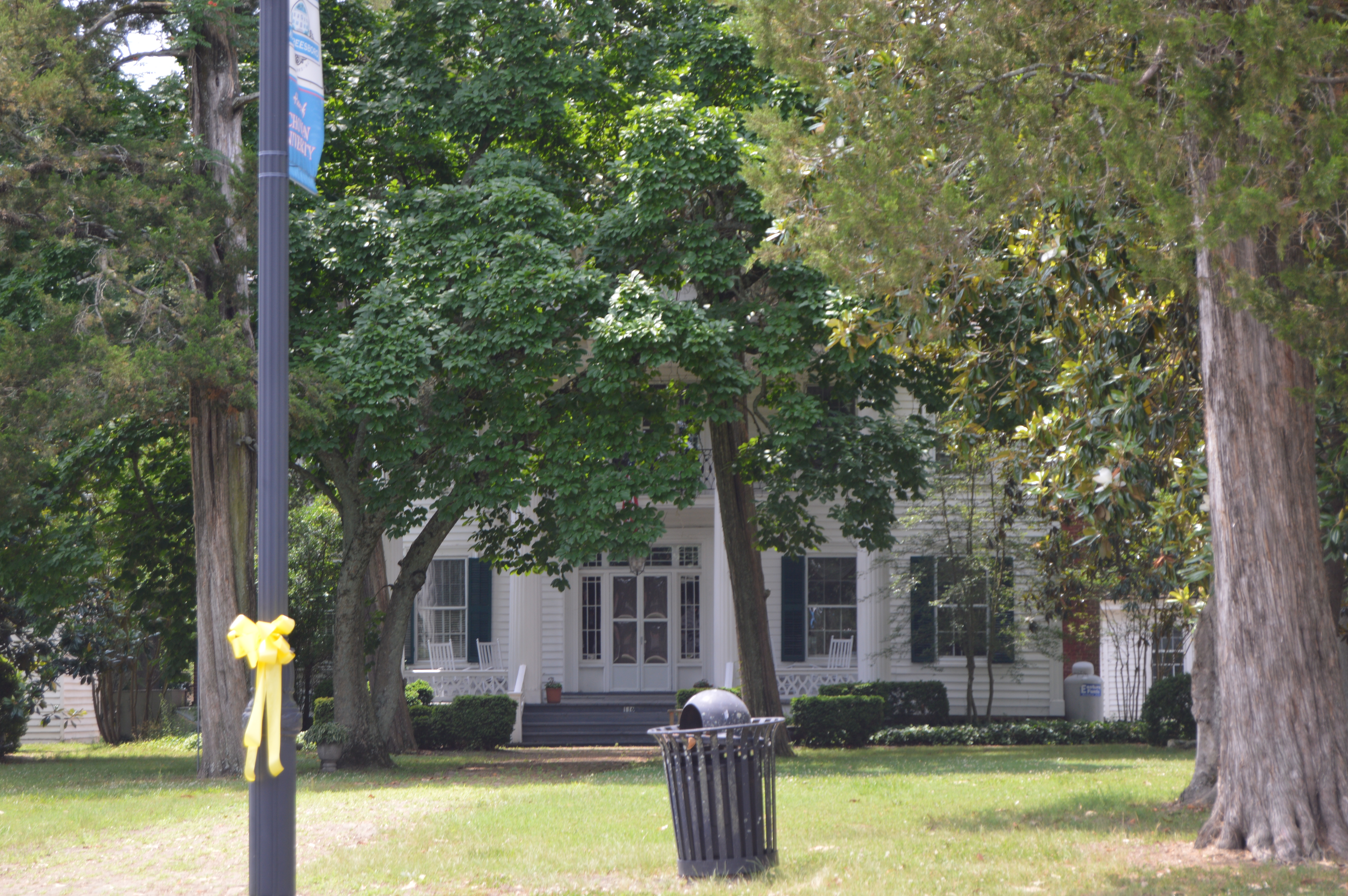 Front of the Roberts-Vaughan House, located at 130 E. Main Street in Murfreesboro, North Carolina, United States. Built in 1805, it is listed on the National Register of Historic Places.